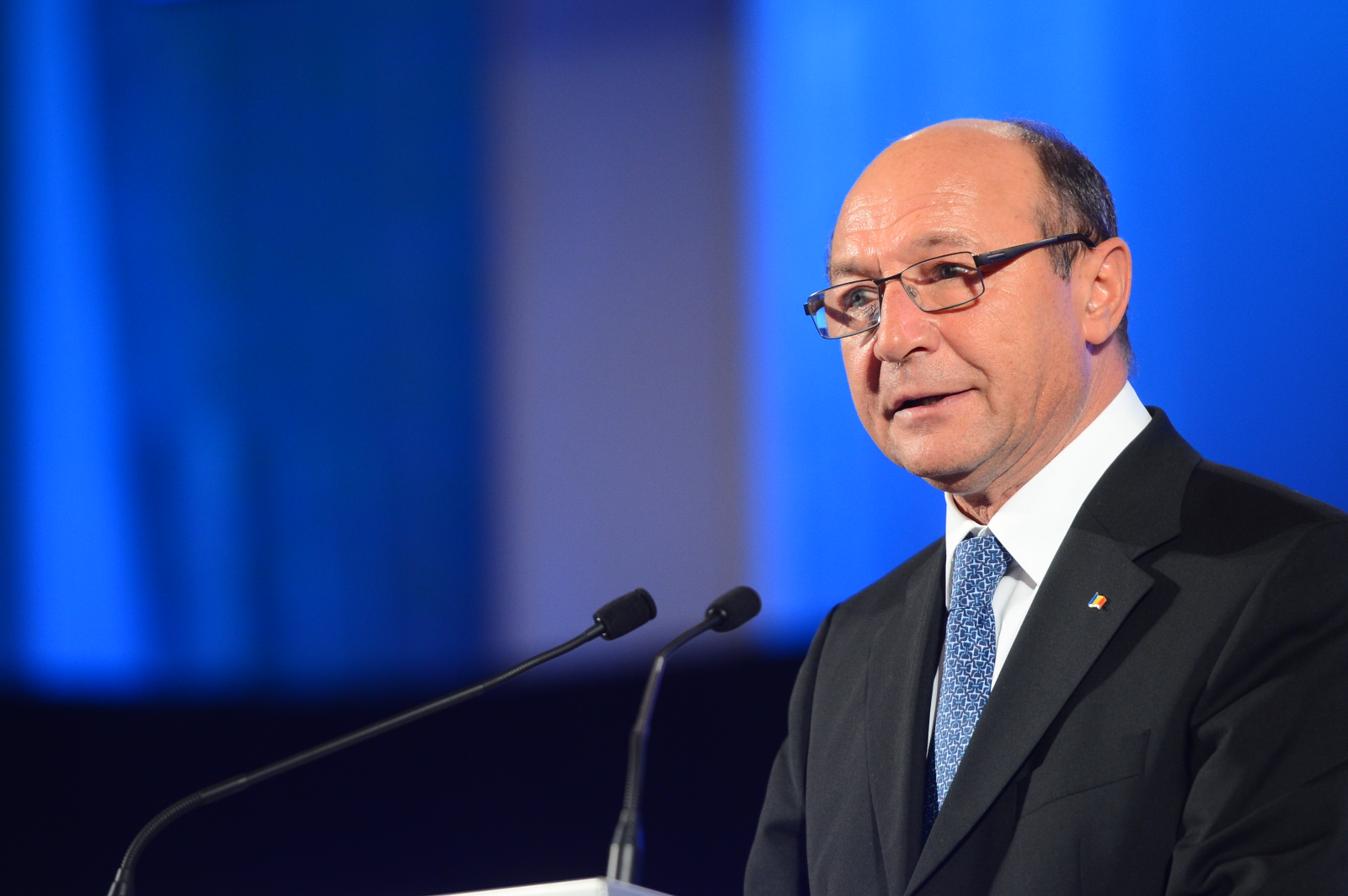 EPP_Congress_4732